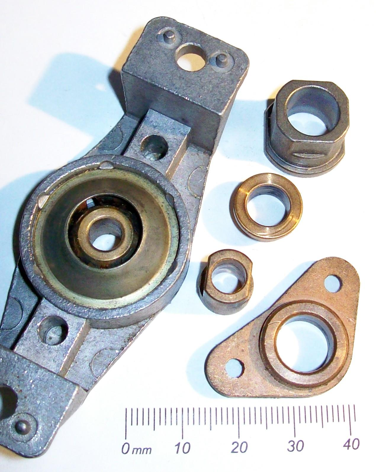 Plain bearing bushings; left side: staggering bearing in a motor end shield